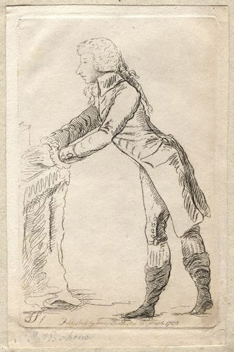 Portrait of James St Clair-Erskine, 2nd Earl of Rosslyn